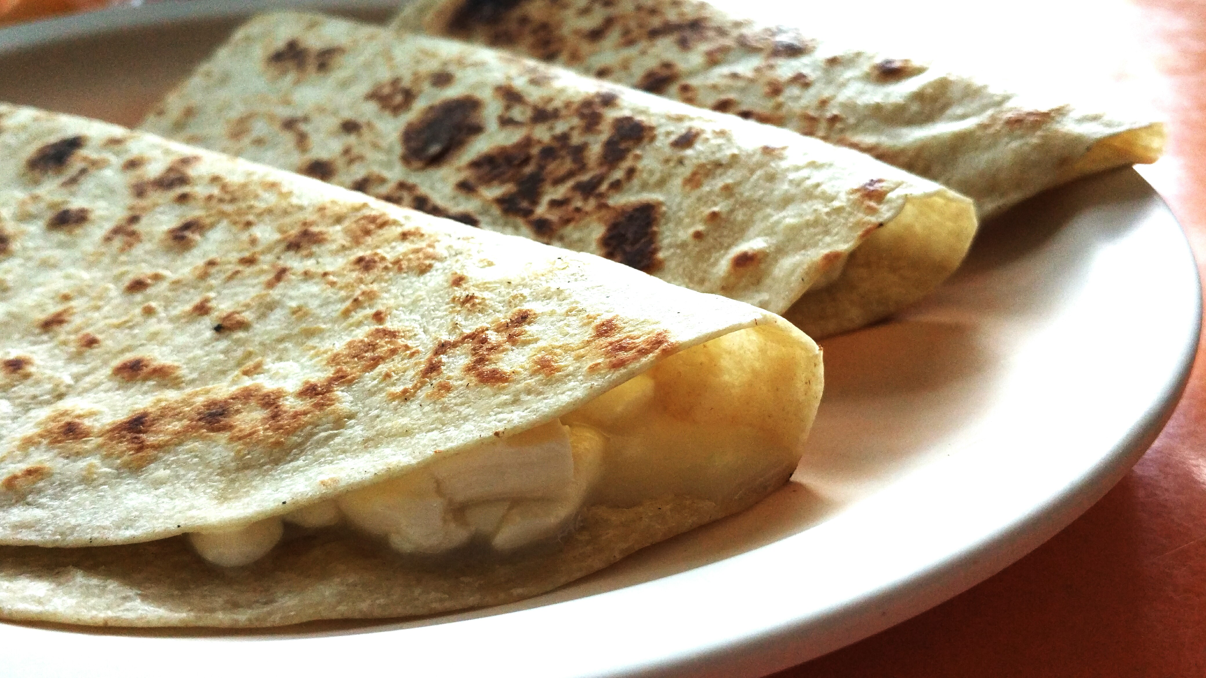 quesadilla - a Mexican tortilla with molten cheese